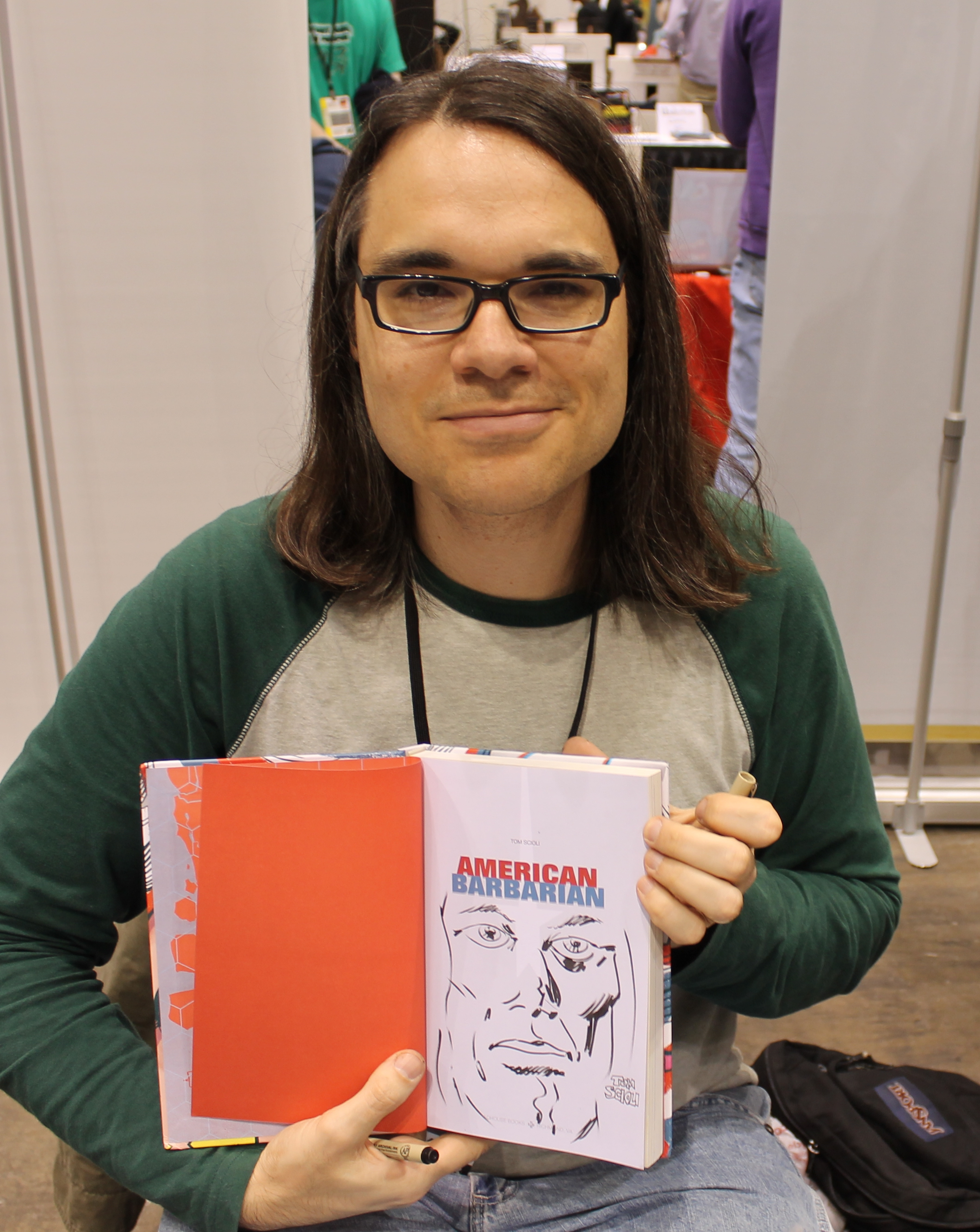 Tom Scioli.